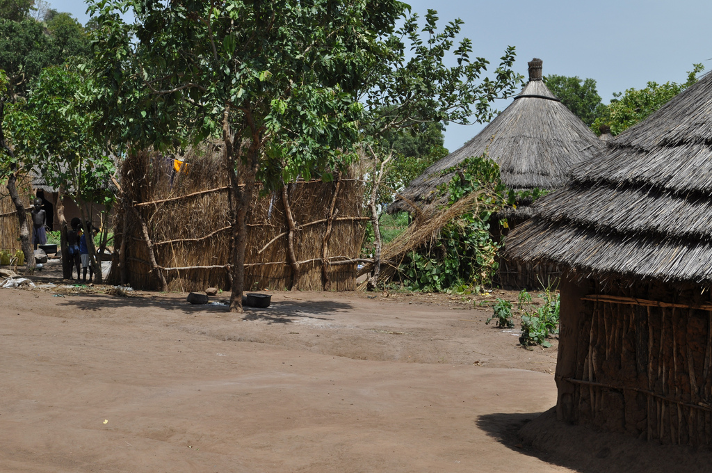 Houses in a village in Boma.